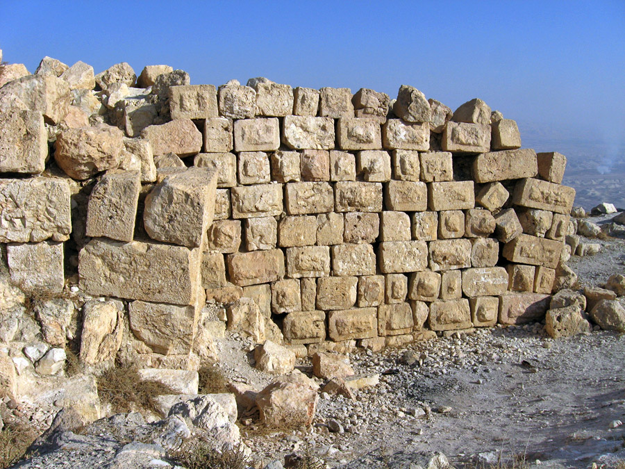 A Hasmonean wall in Sartaba, Israel